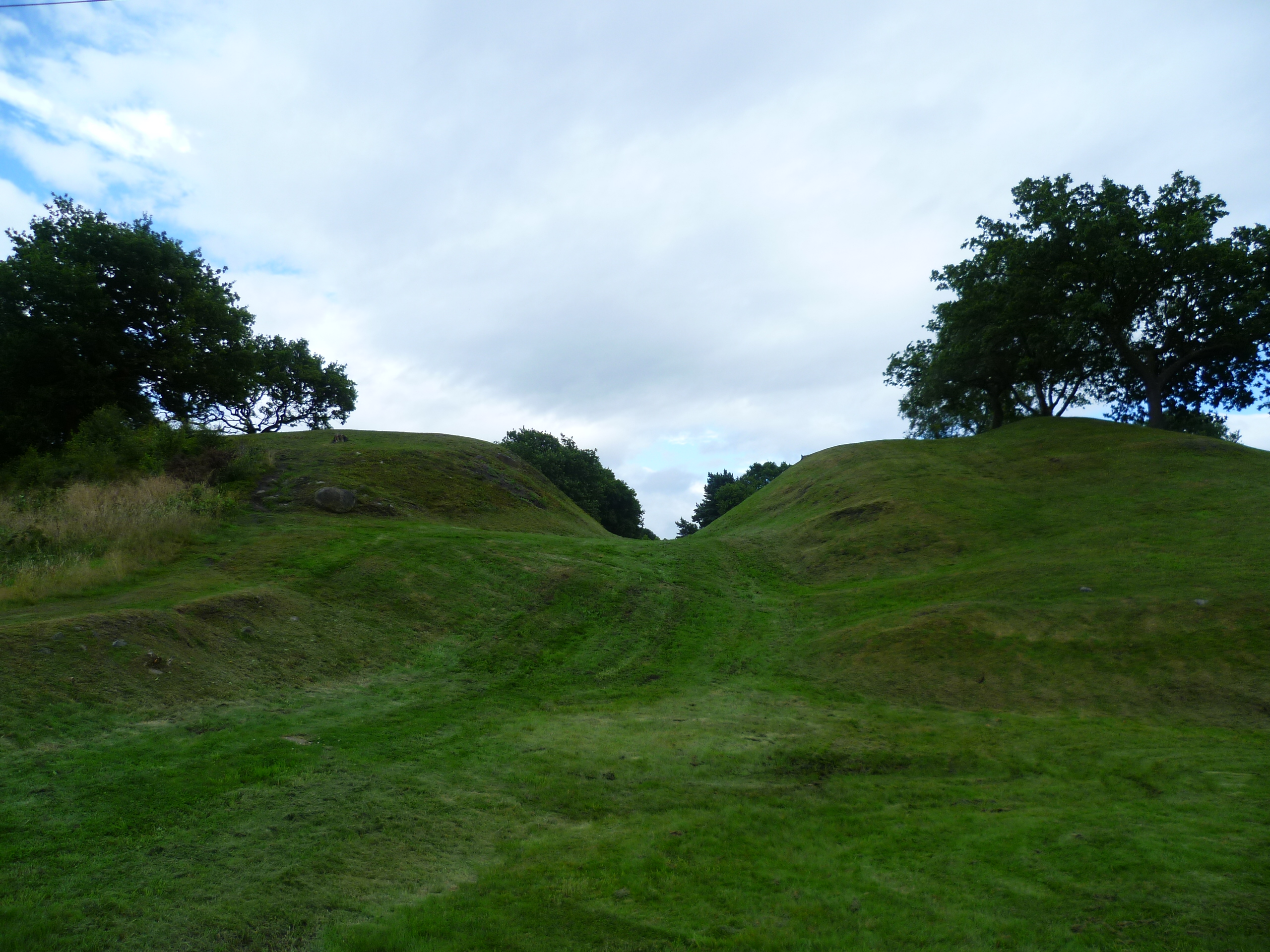 A section of the Antonine Wall at Rough Castle near Falkirk